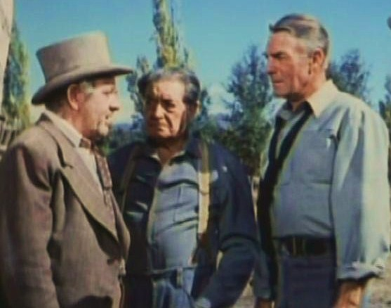 L. to R. : Chubby Johnson, Ralph Moody & Randolph Scott in Rage at Dawn - cropped screenshot